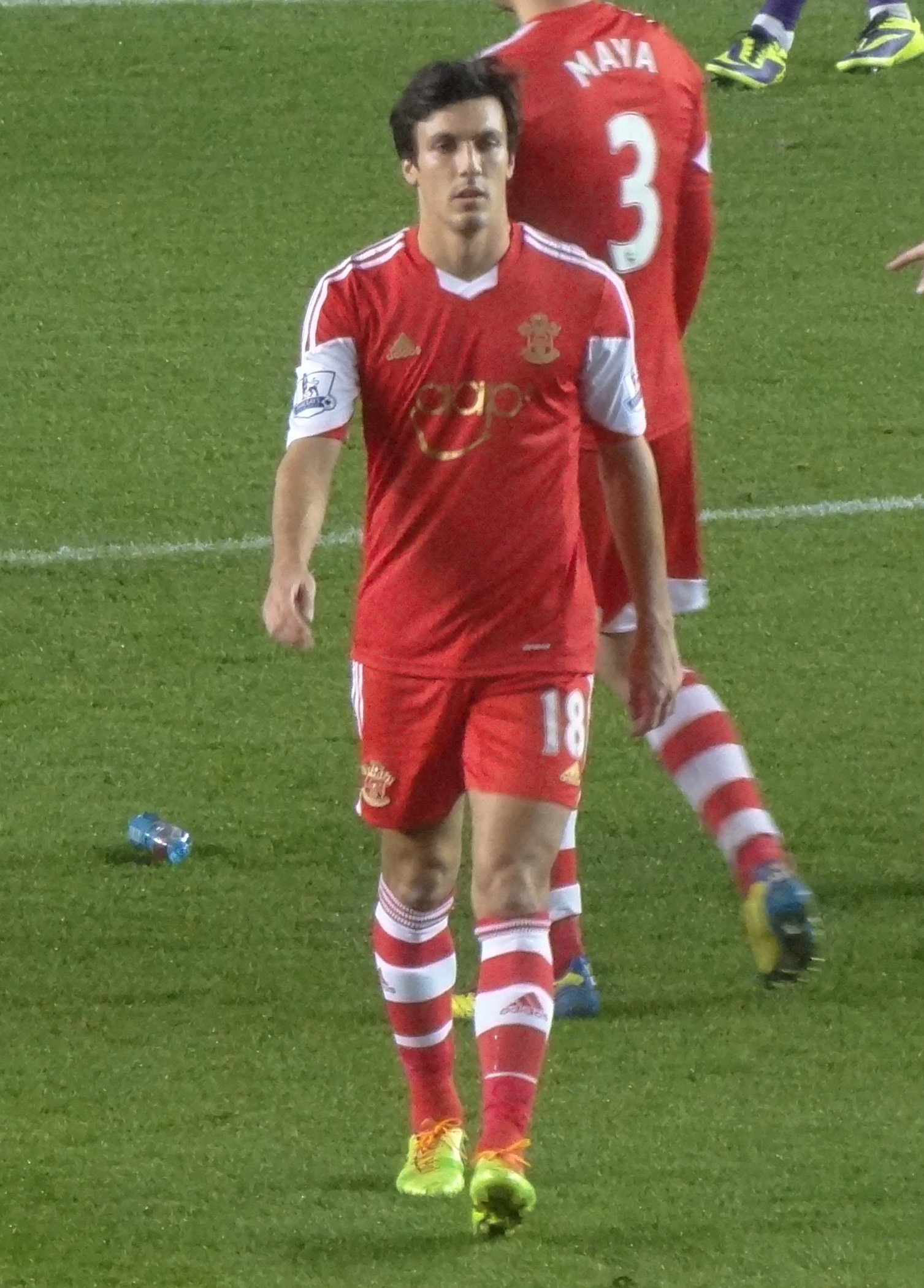 Jack Cork against Aston Villa, December 2013.